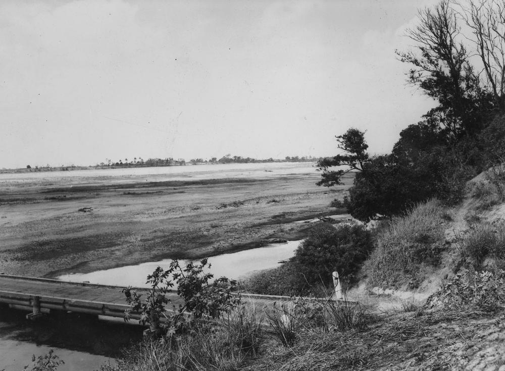 Burdekin River at its lowest level, 1948 Burdekin River in the dry season, showing weeds and sandbanks.